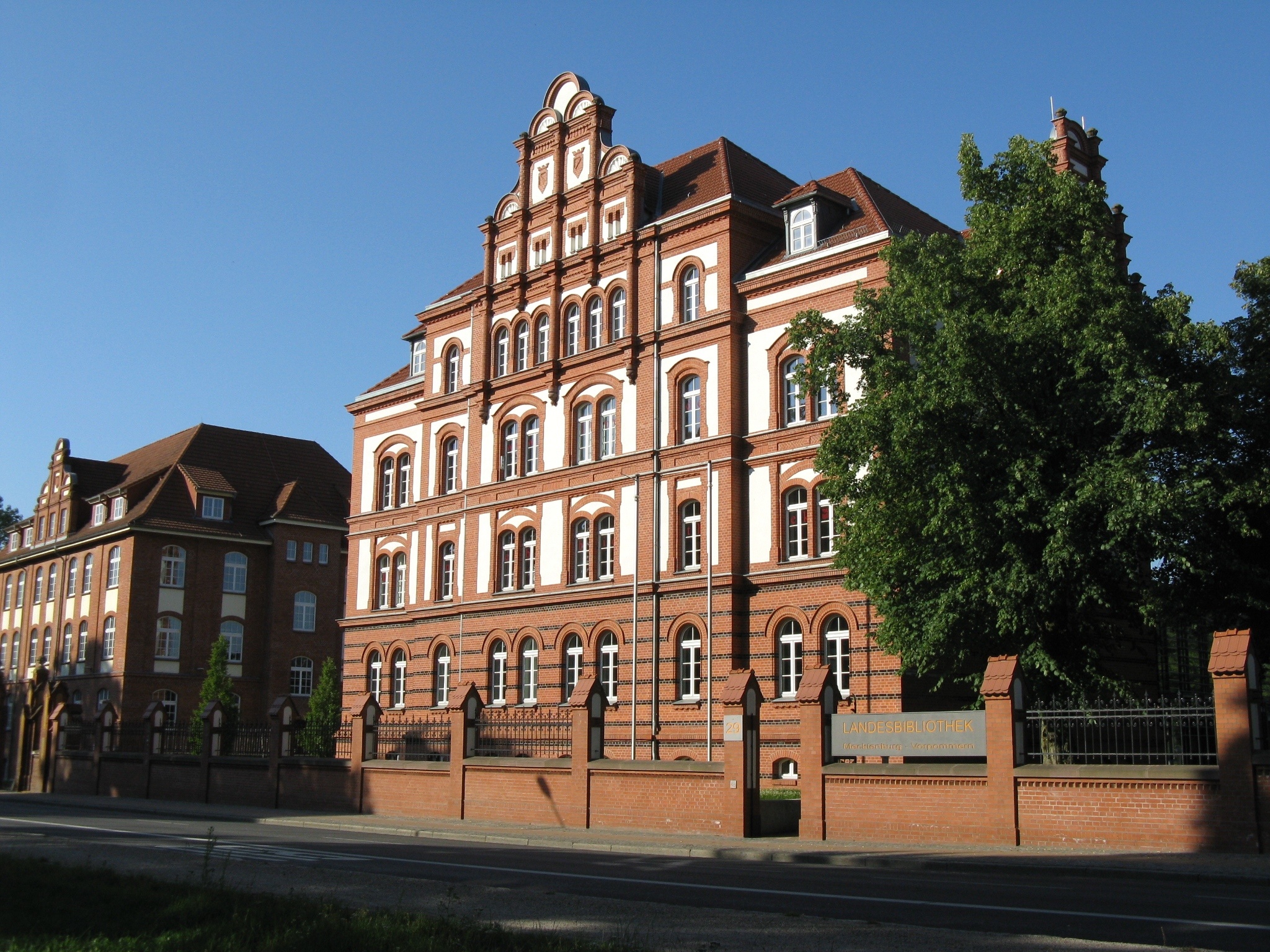 State Library Mecklenburg-Vorpommern in Schwerin, Germany